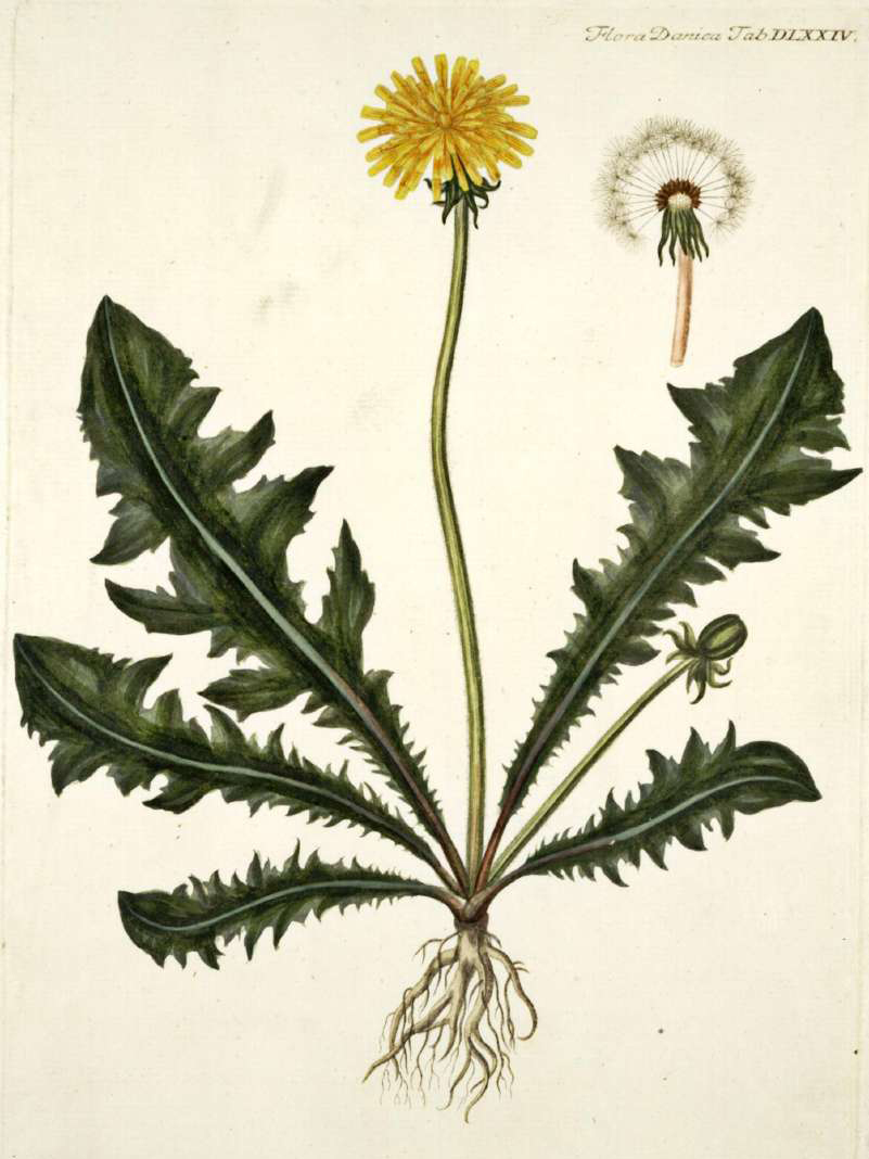 Taraxacum officinale Webb [as Leontodon taraxacum L.]